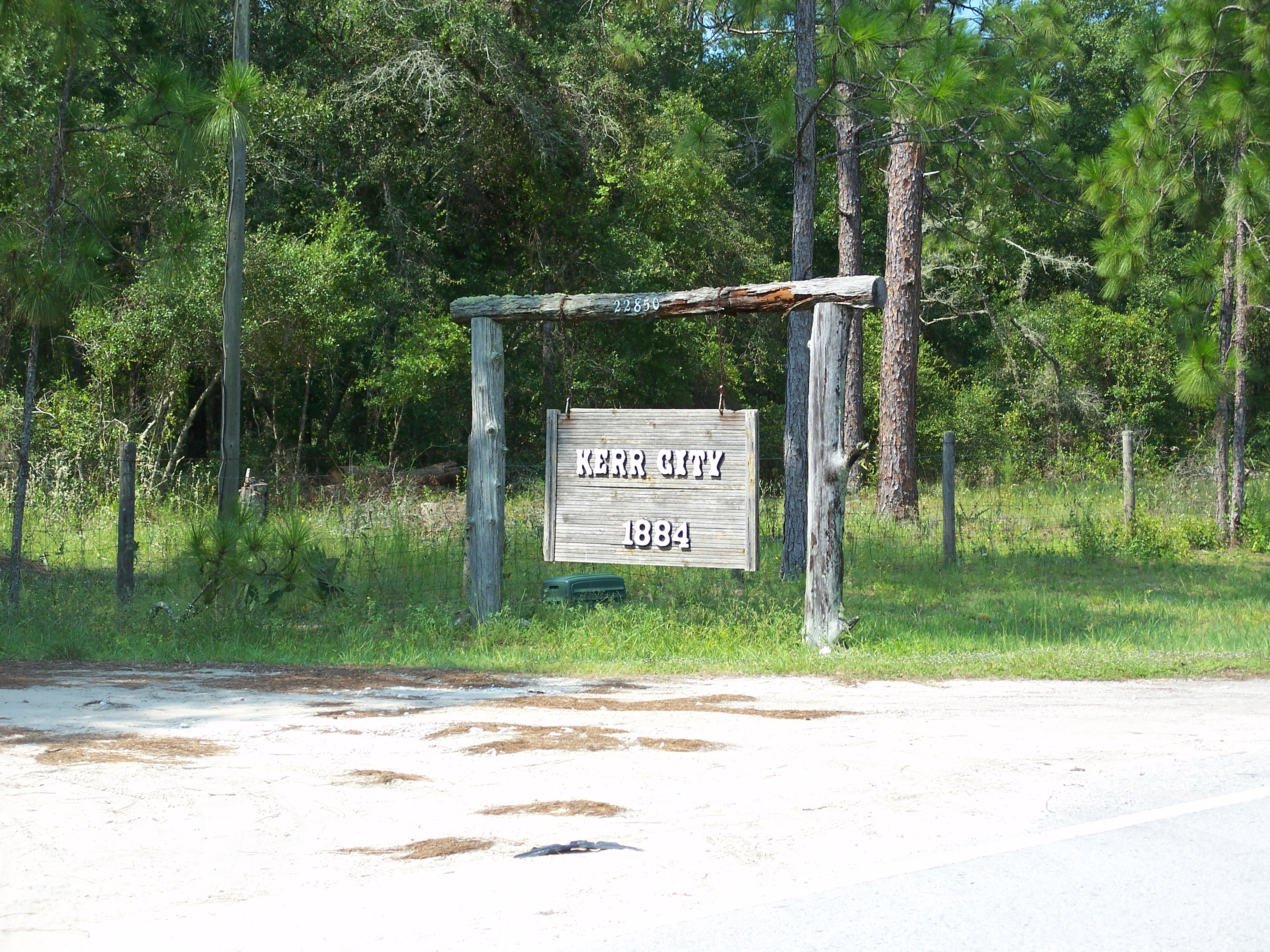 Sign in the Kerr City Historic District, near Fort McCoy, Florida